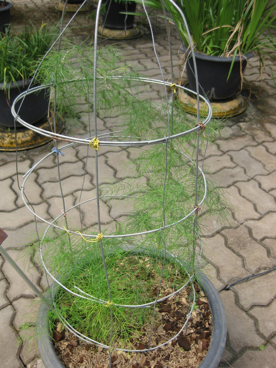 Photographed at the Queen Sirikit Botanic Garden (Chiang Mai Province, Thailand) in March